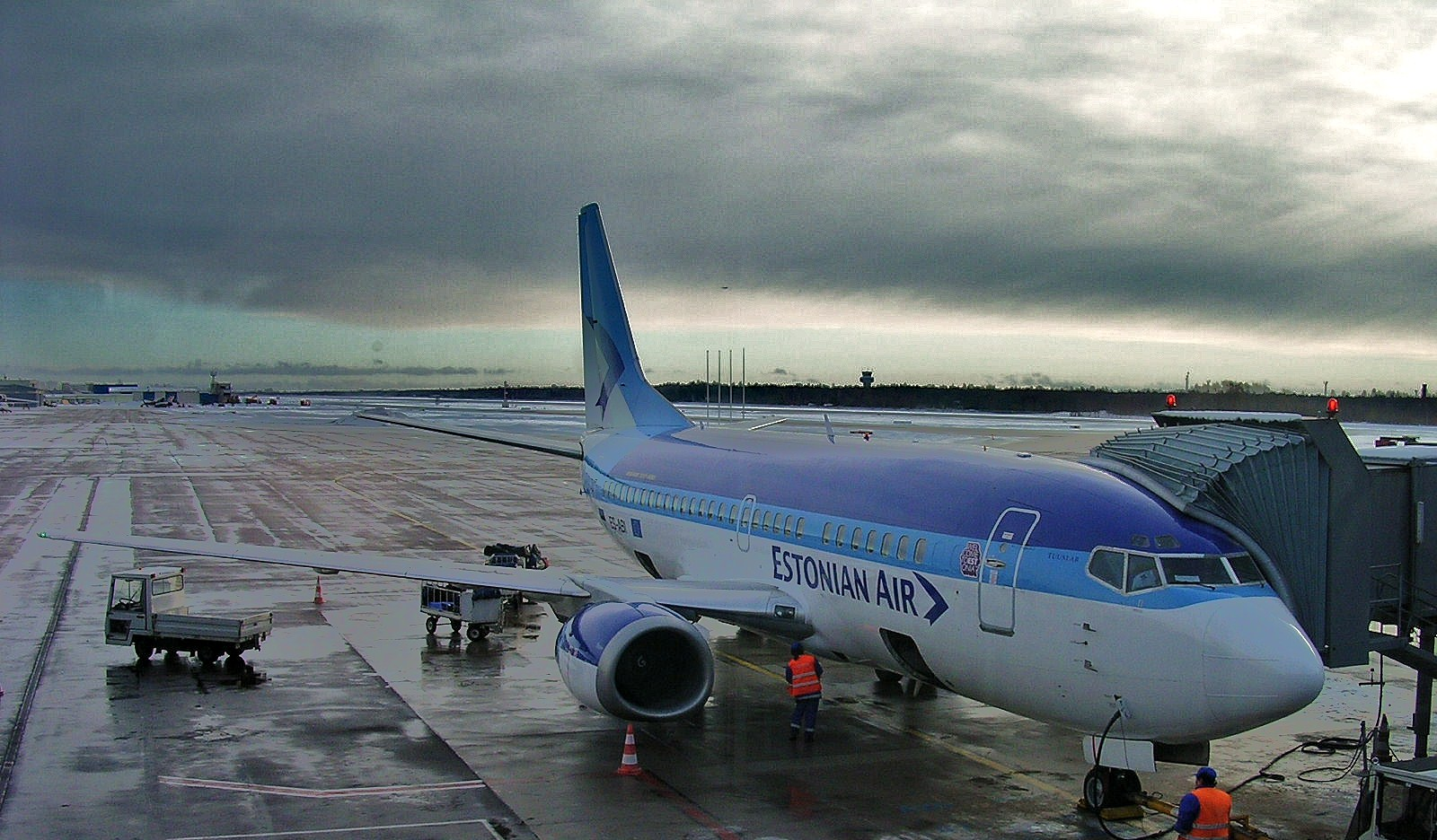 Estonian Air Boeing 737 at Tallinn Airport.